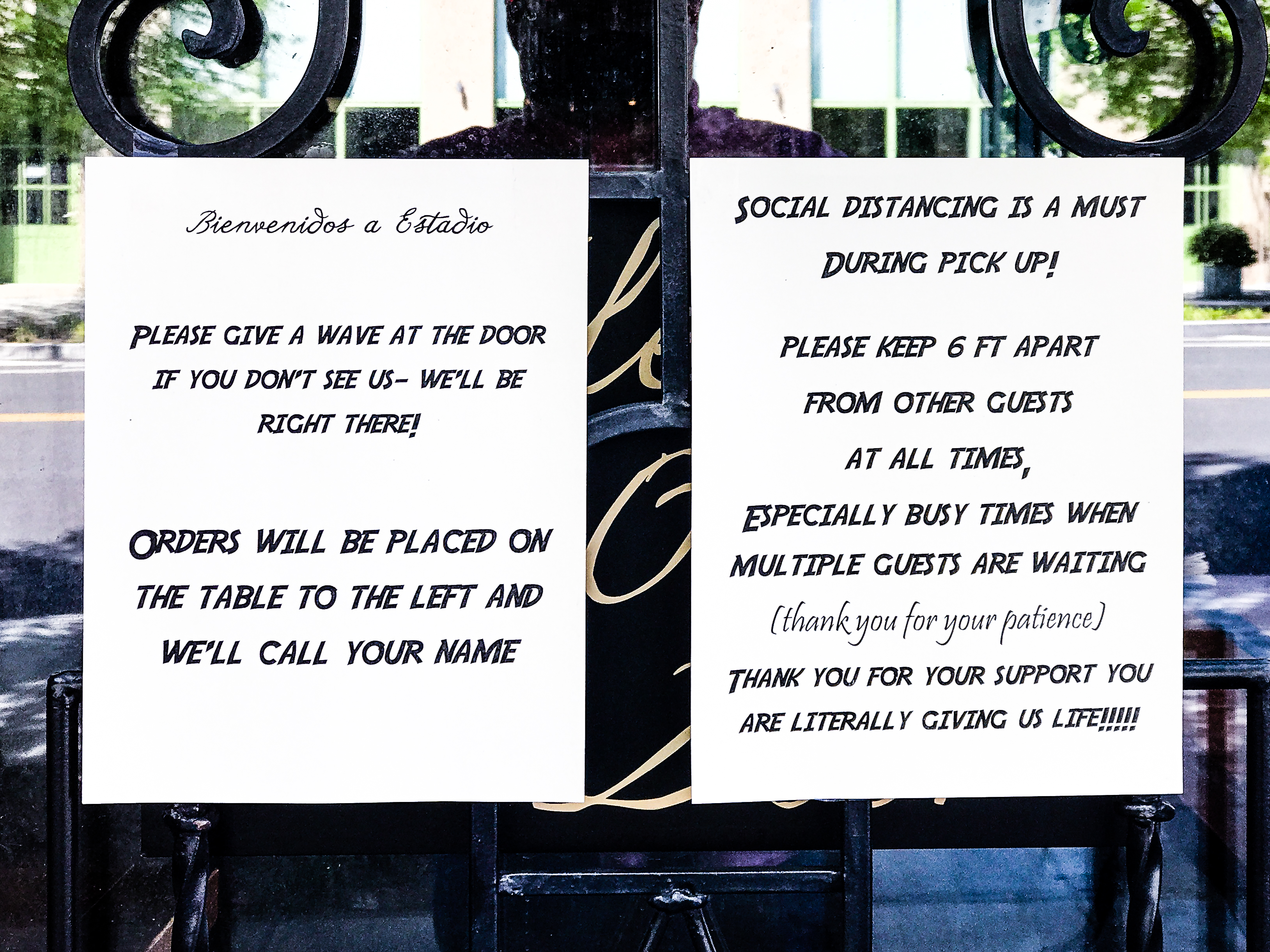 Estadio is a high-end tapas restaurant at the intersection of 14th St NW and Church St in Washington DC. Estadio Switched to Carry Out Orders Only During the Pandemic.